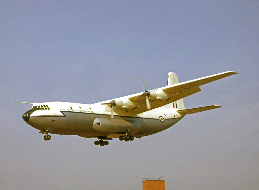 Short SC5 Belfast C.1 XR364 "Pallas" of 53 Squadron RAF Transport Command at Farnborough in 1964